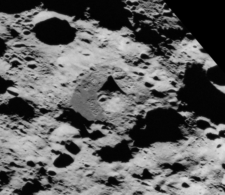 Oblique view of Bolyai crater, on the moon, facing east. From Apollo 17 mapping camera during trans-Earth injection.